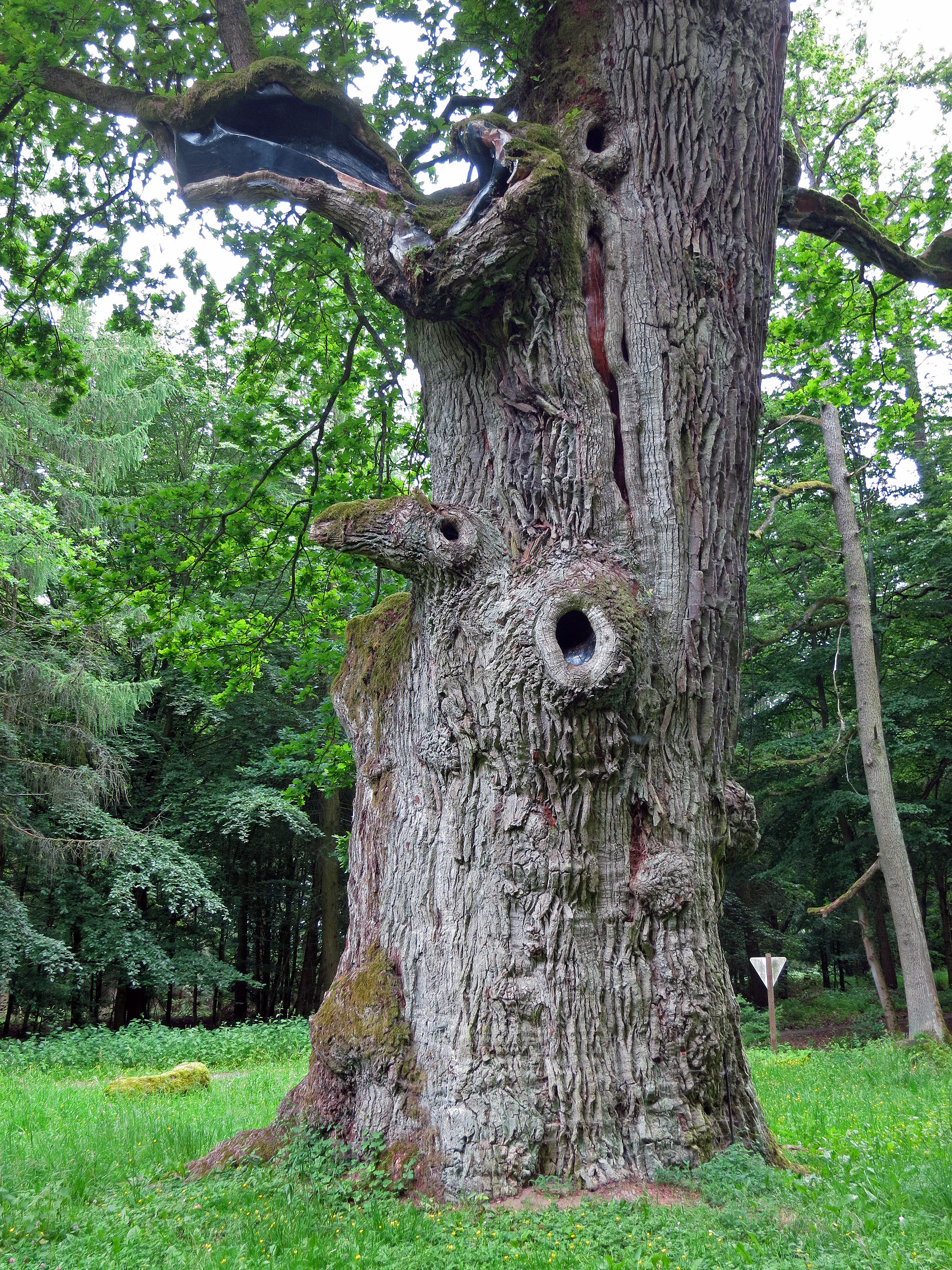 Hammundesoak at Friedewald, Germany